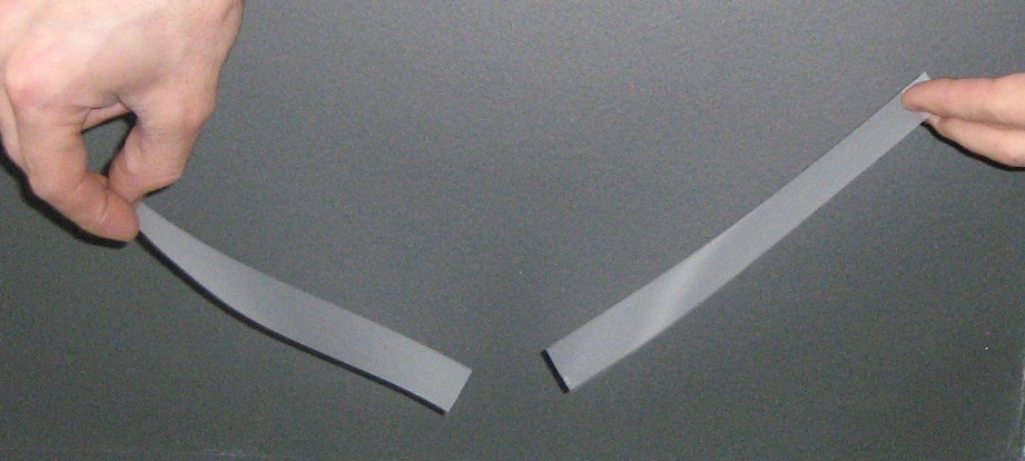 Demonstrating force of attraction between two oppositely charged lengths of tape.